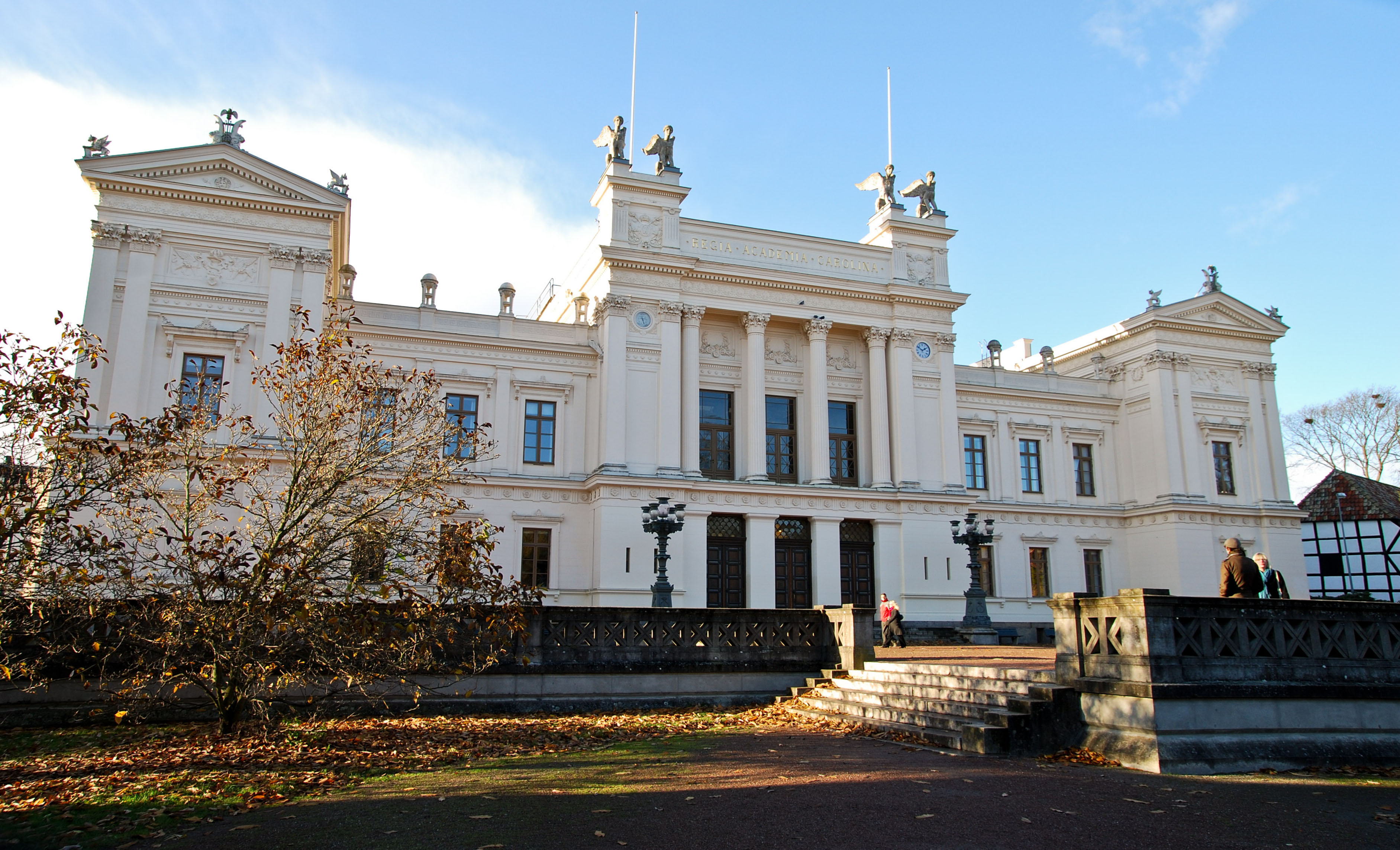 University of Lund main building